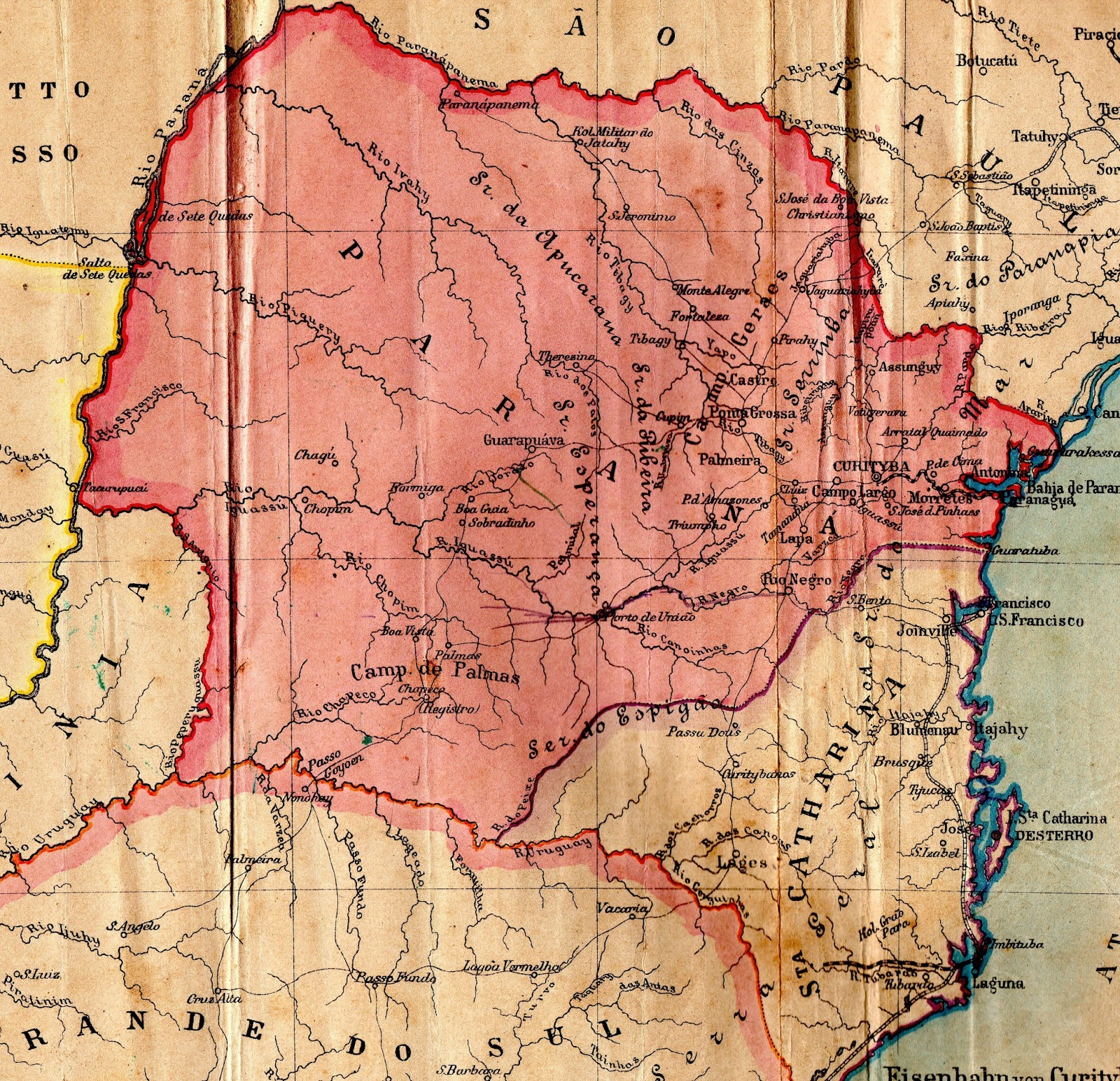 THE IMAGES OF THE BOOK OF HENRY LANGE "Südbrasilien" (1885)